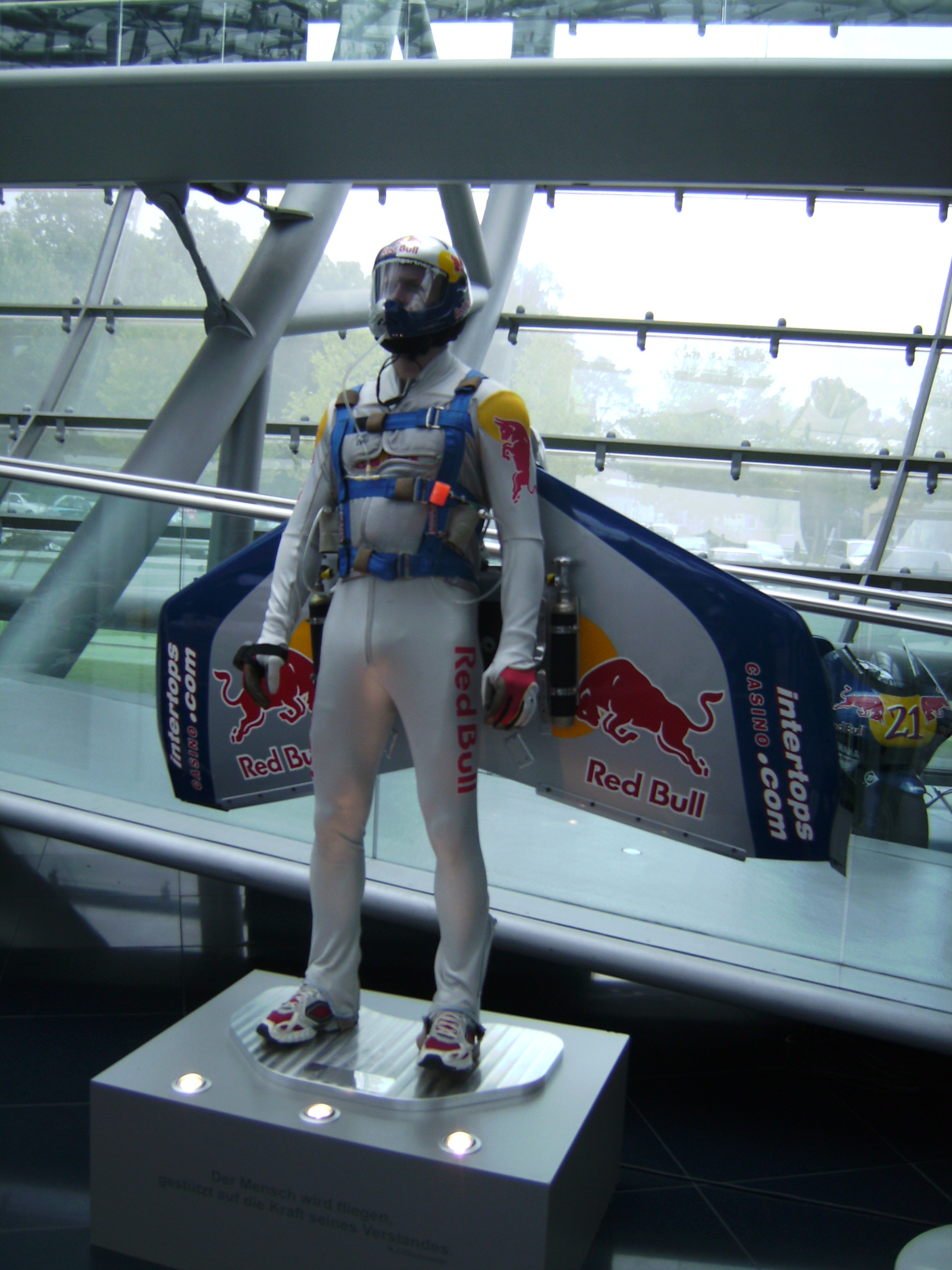 The suit used by Felix Baumgartner for crossing the English Channel